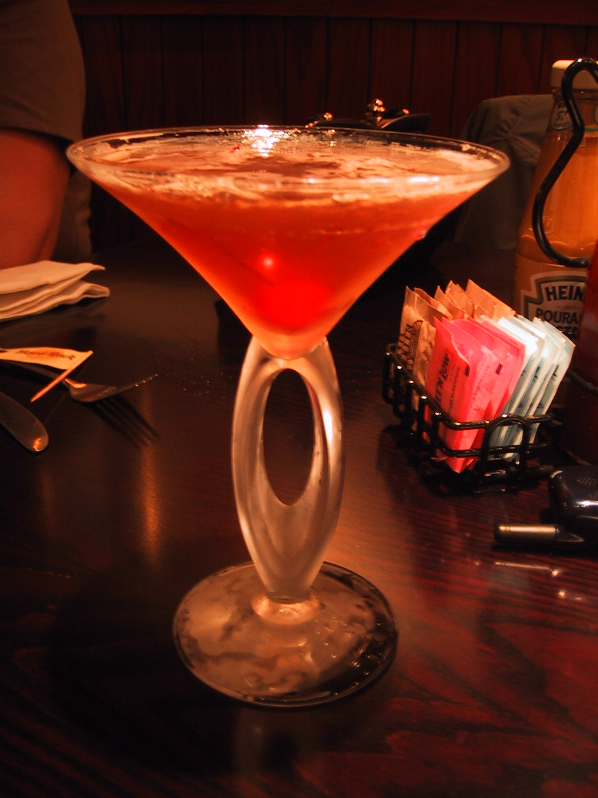 cosmopolitan: "I was Renee's guest at Geoffrey Knoop's birthday party at Hard Rock Cafe." (cosmopolitan, cocktail, drink, booze, liquor, Hard Rock Cafe, birthday, party, jtleroy, Geoff, Jeff, Geoffrey, Renee)